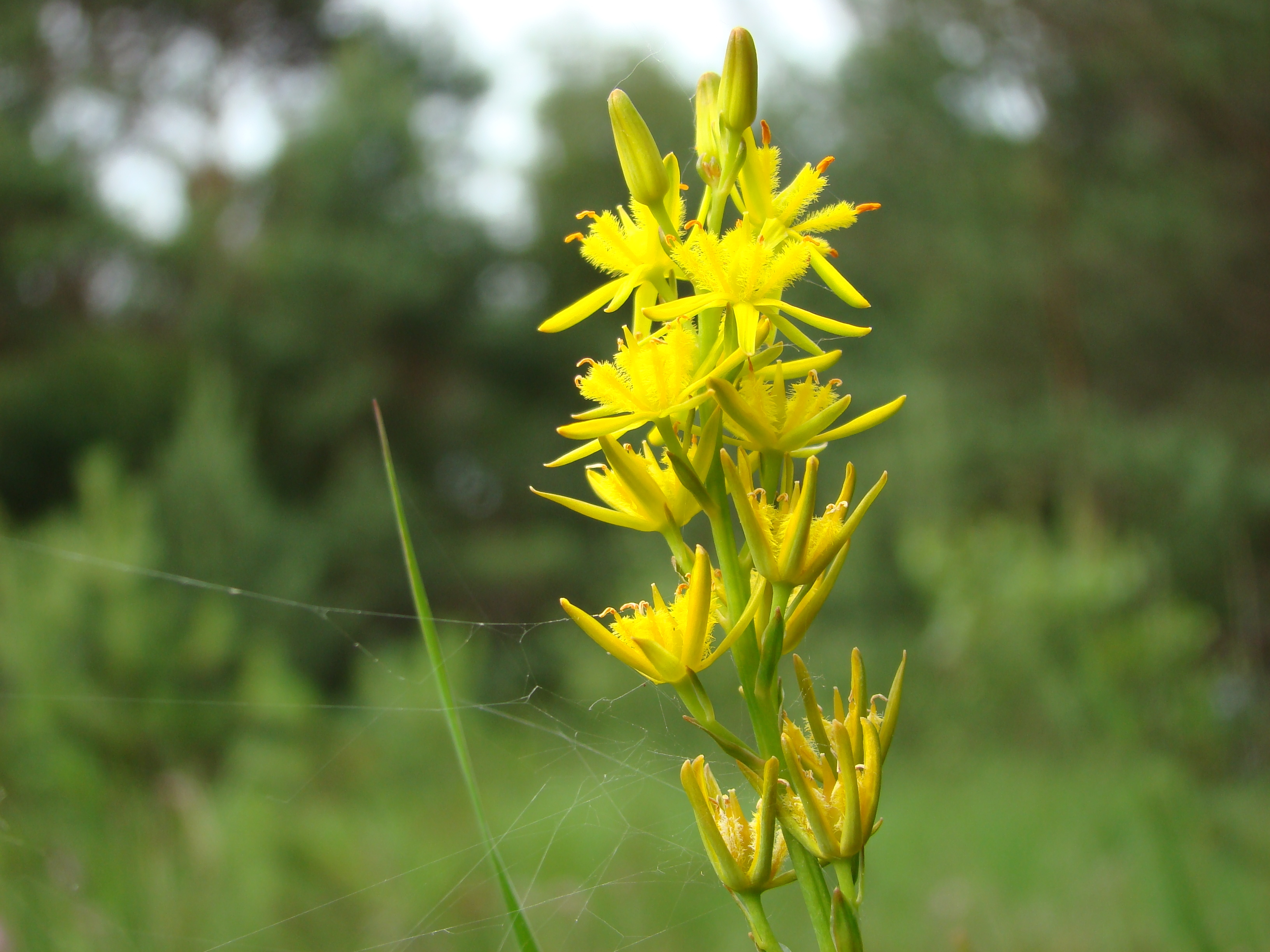 Bog-asphodel (Narthecium ossifragum) "Southern Heath Nature Park", Germany